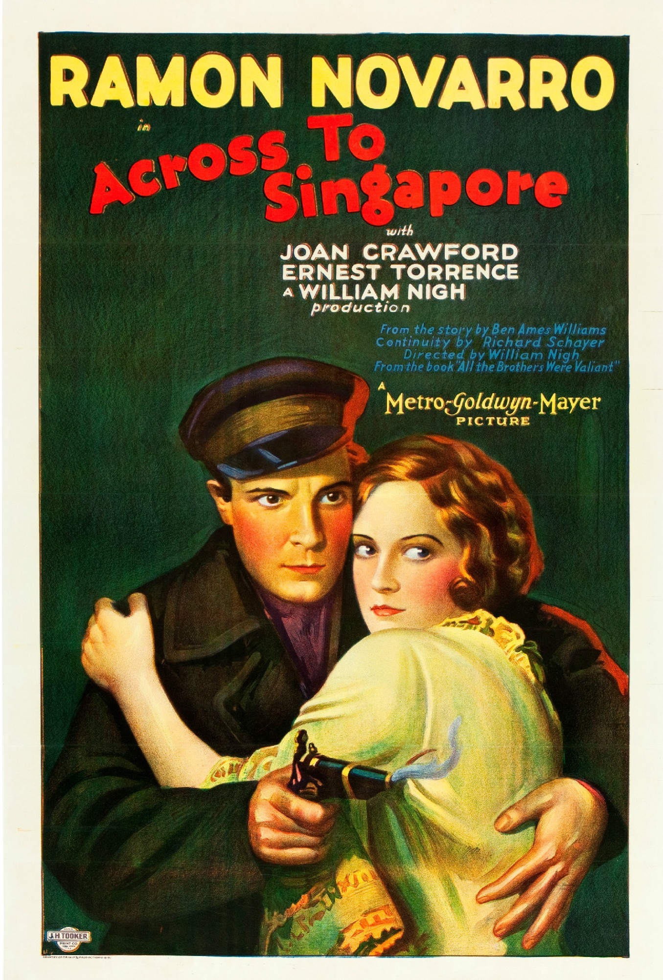 Poster for the 1928 film Across to Singapore.